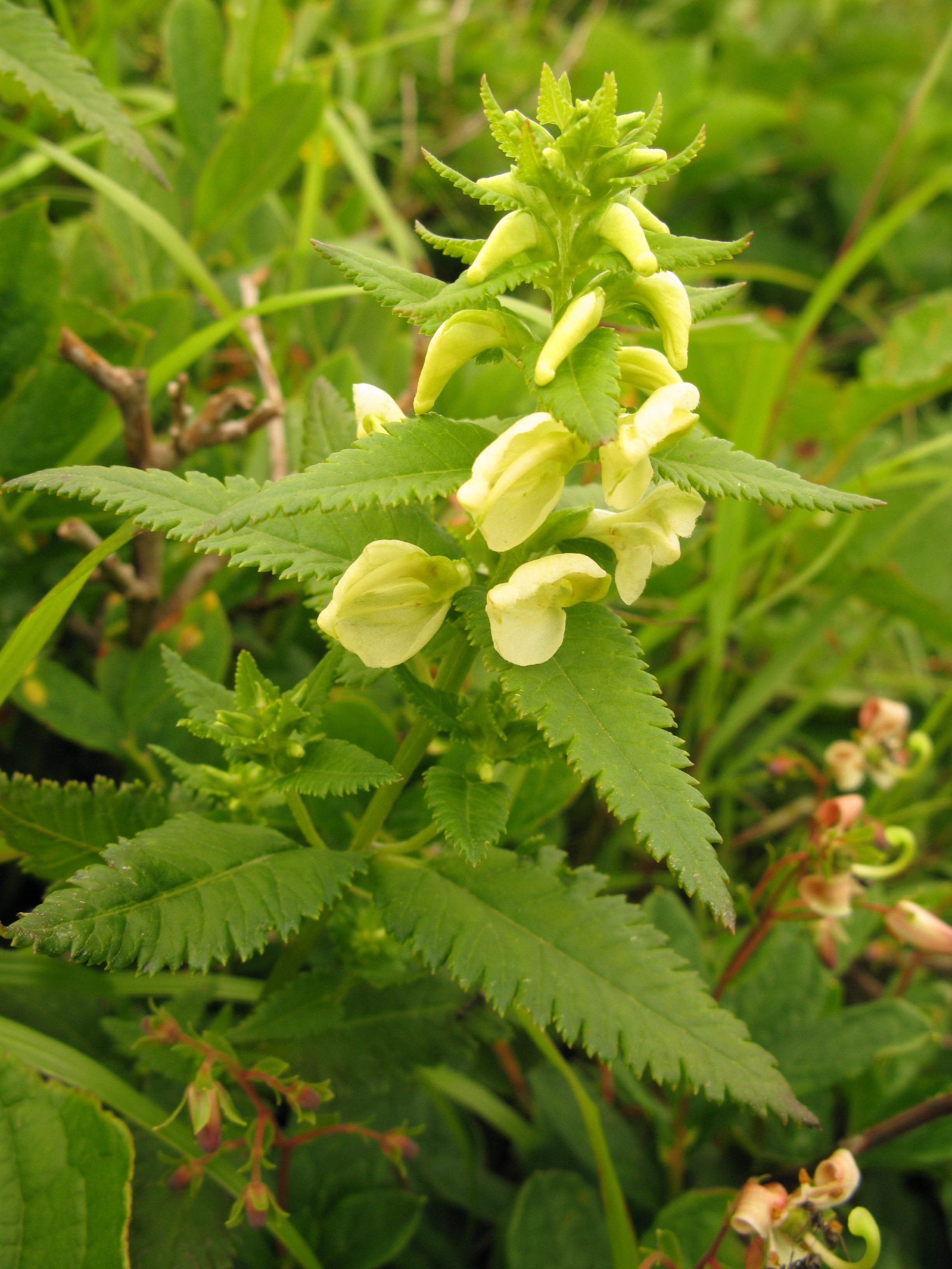 Pedicularis yezoensis,Aizu area,Fukushima pref.,Japan